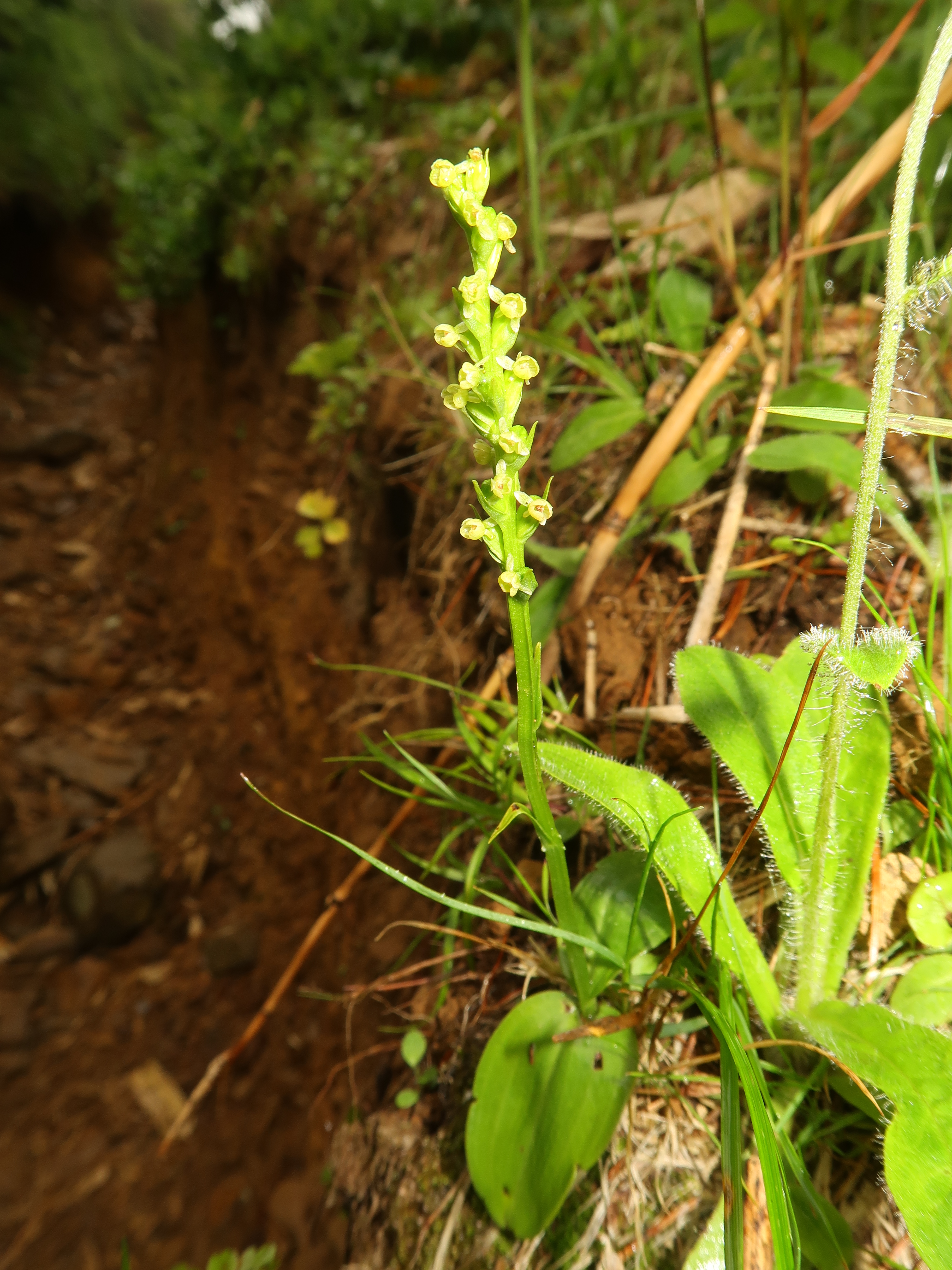 Platanthera chorisiana, Mount Hachimantai, Iwate pref., Japan